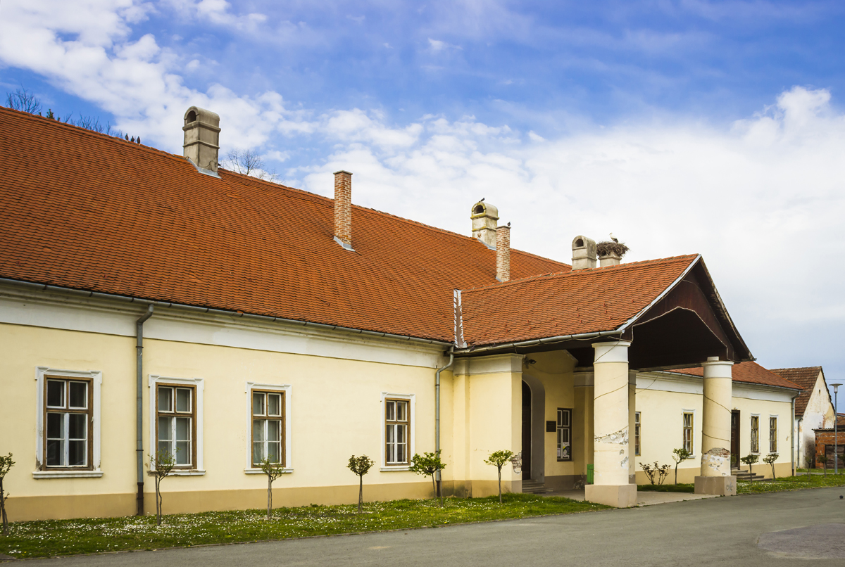 Orahovica